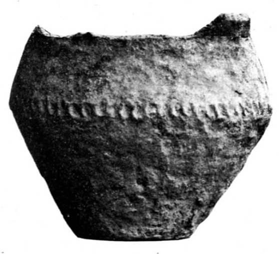 Dompierre-sur-Besbre, Allier, Auvergne, France. Funerary urn from the bronze age urn field near the hamlet l'Auberge, 3 km N-E of Dompierre. Ex.-Landois collection.